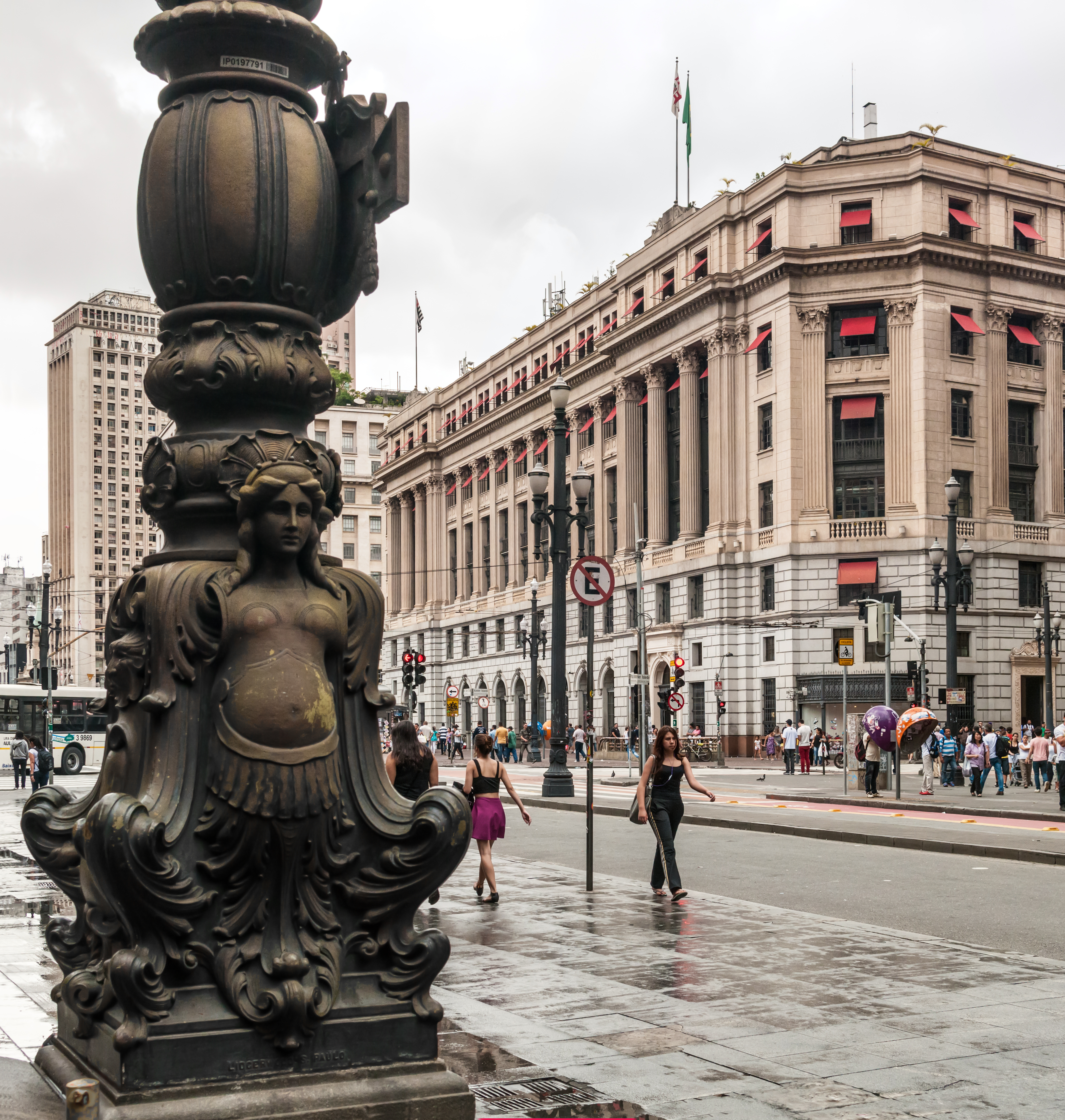 São Paulo Center